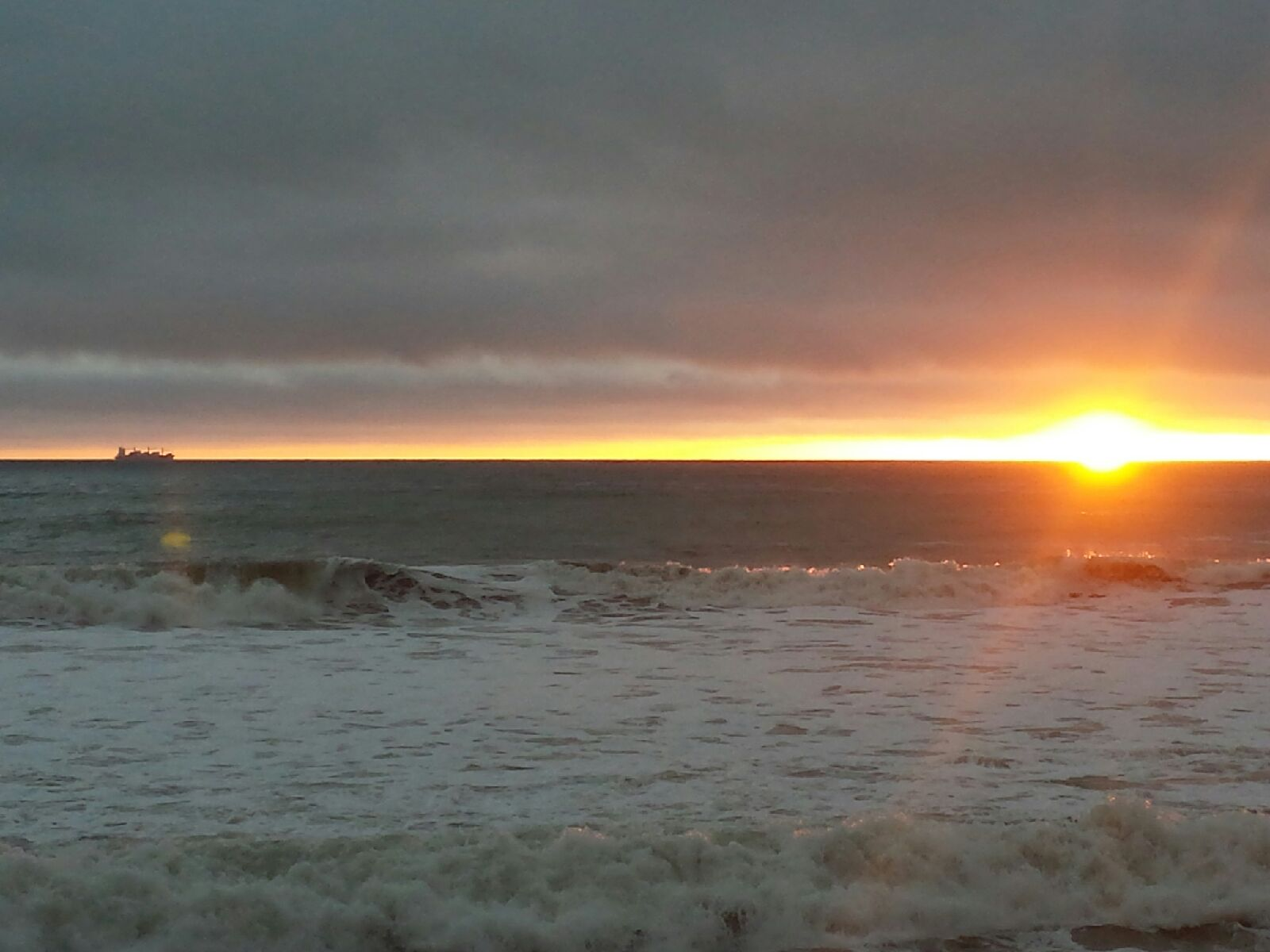 Cabrillo Beach, located in San Pedro, CA, at sunset.